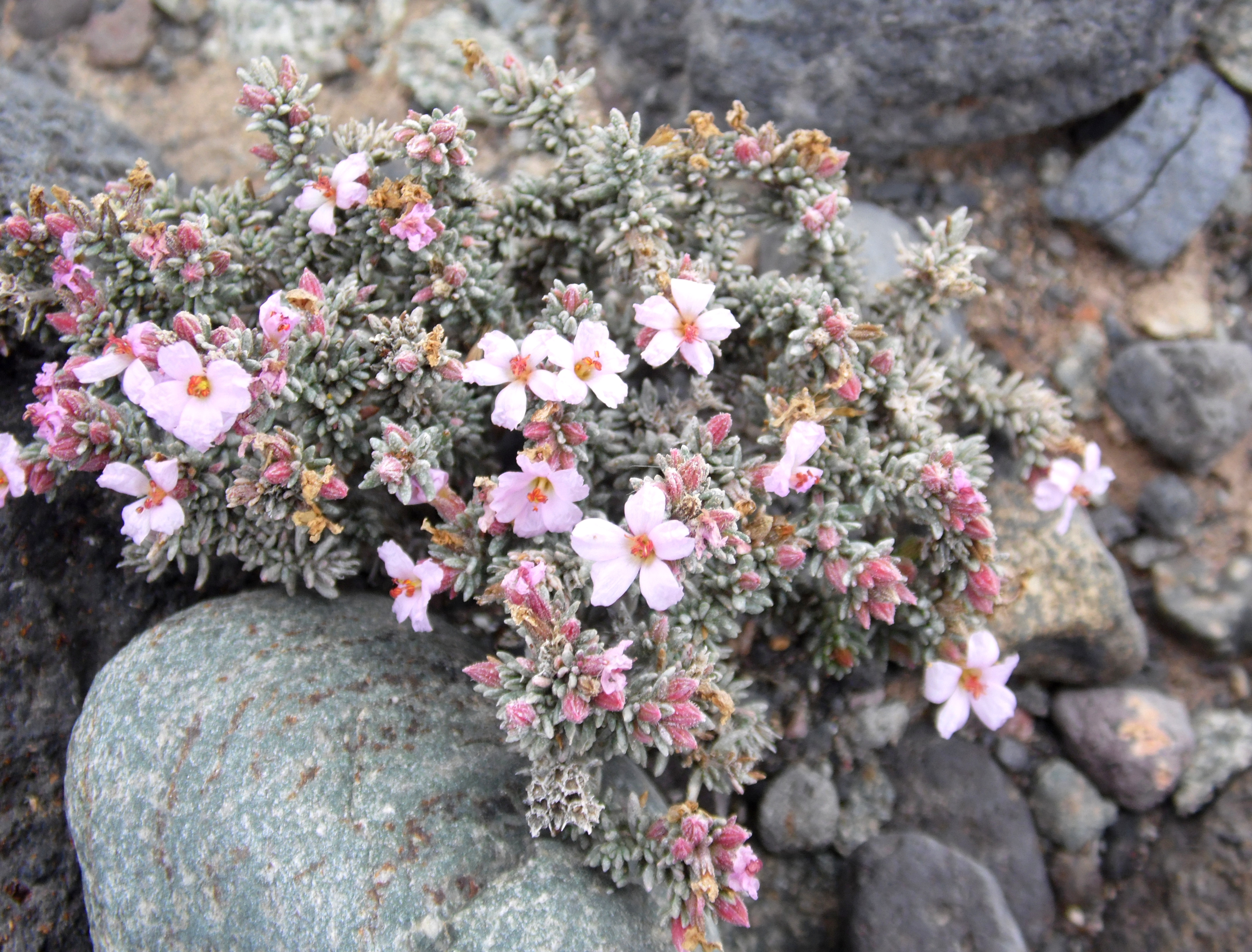 Frankenia hirsuta in Pozo de Izquierdo on Gran Canaria